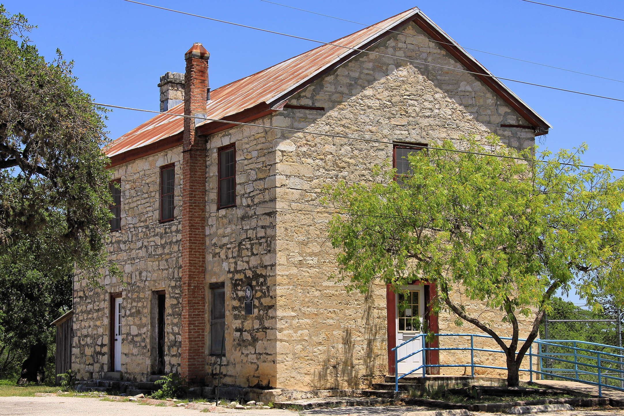 The first Bandera County Courthouse in Bandera, Texas, United States was built in 1868 and designated a Recorded Texas Historic Landmark in 1979.